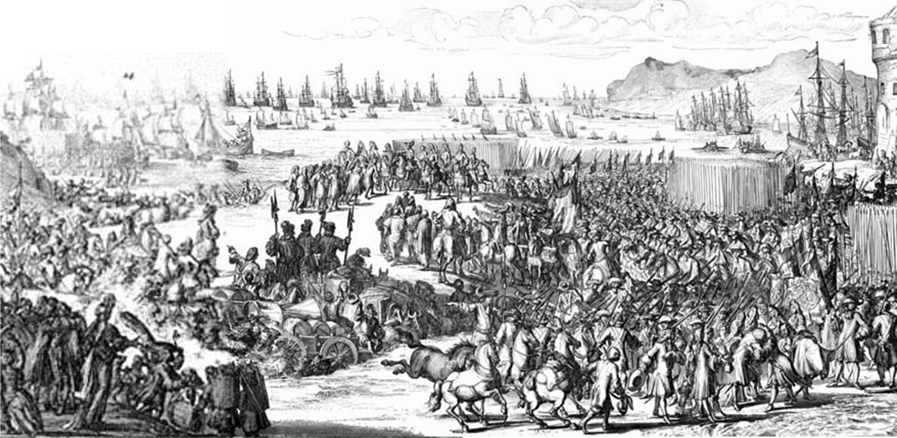 Arrival of William III of Orange in England, November 15, 16, 1688